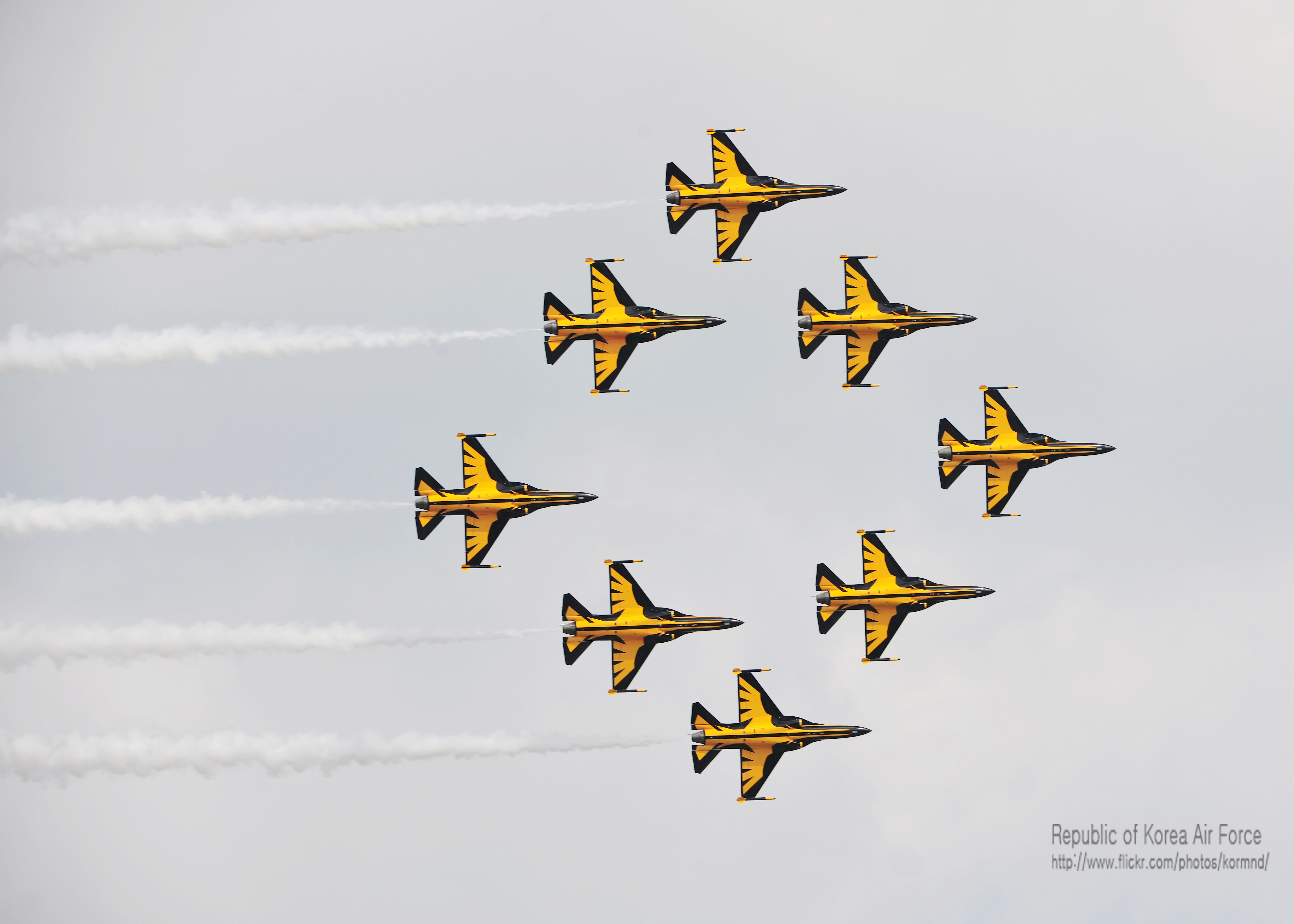 2012년 9월 공군 블랙이글 대국민 에어쇼 행사 Rep.of Korea Air Force Black Eagle